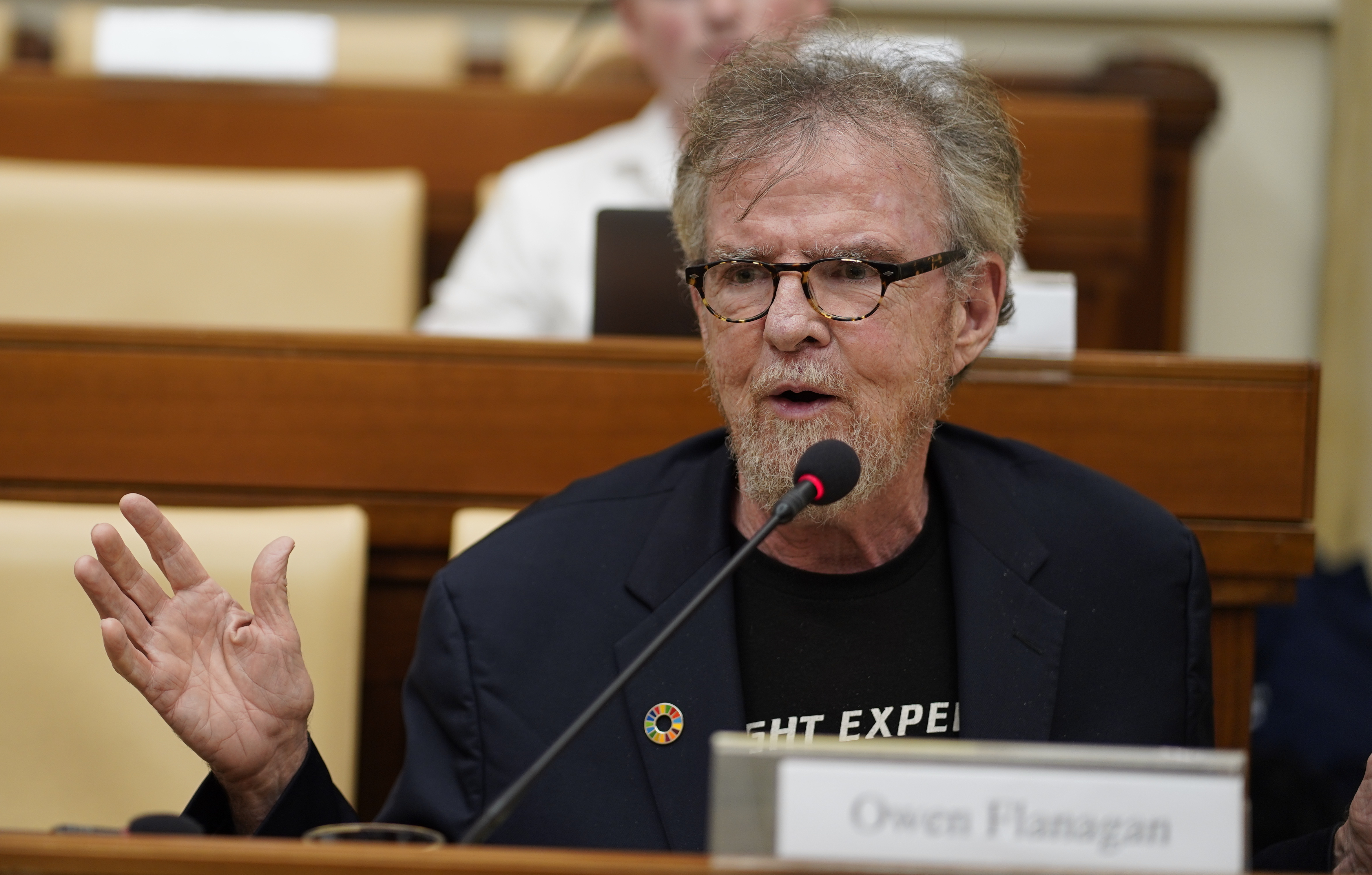 Owen Flanagan at the Pontifical Academy of Sciences on 5 November 2019